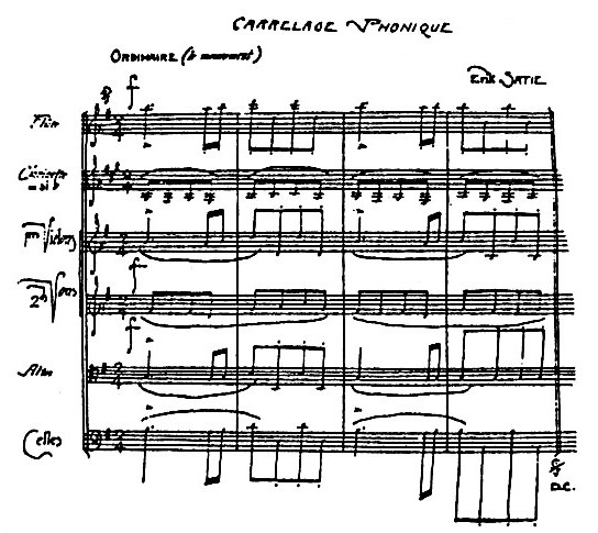 Erik Satie, "Carrelage Phonique" - Musique d'ameublement - partiture 1917